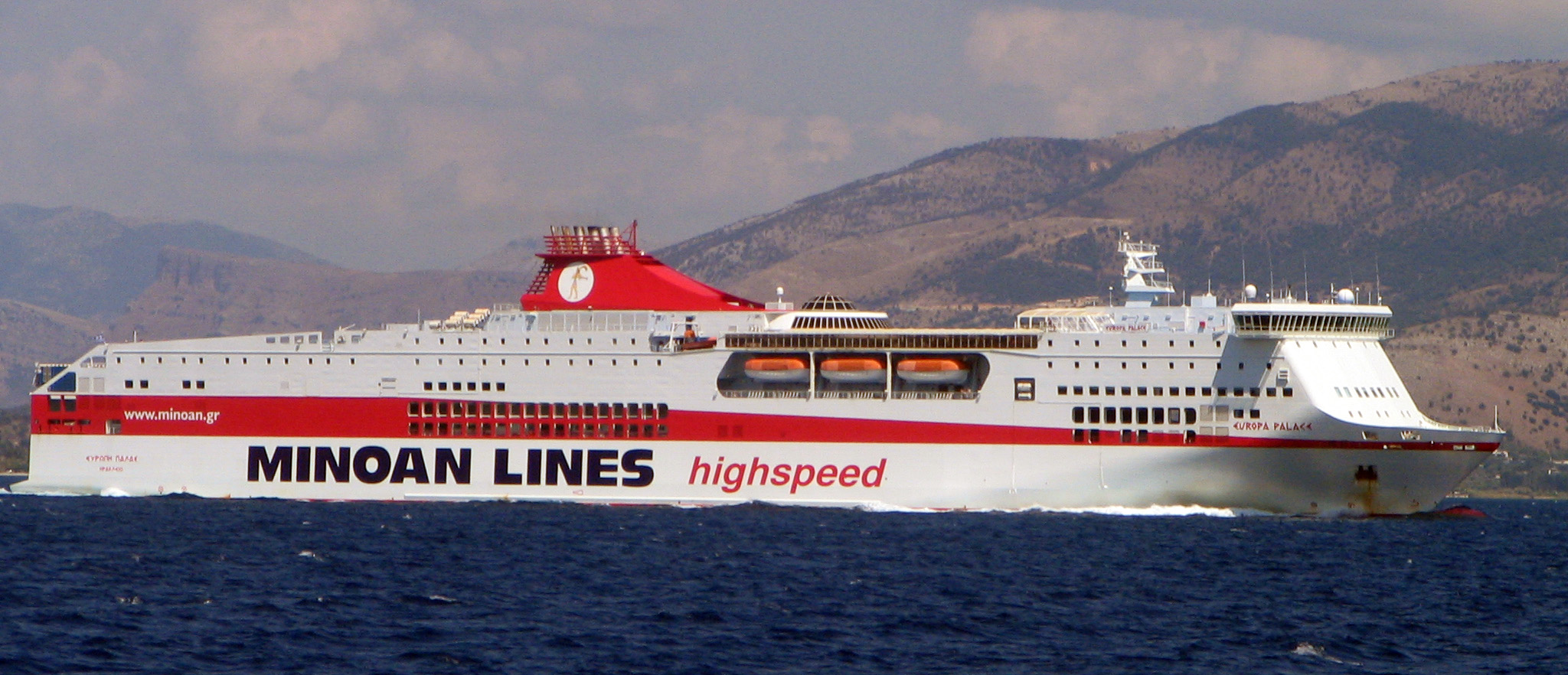 Europa Palace, SZMI, IMO 9220342, a ferry owned by the Minoan Lines